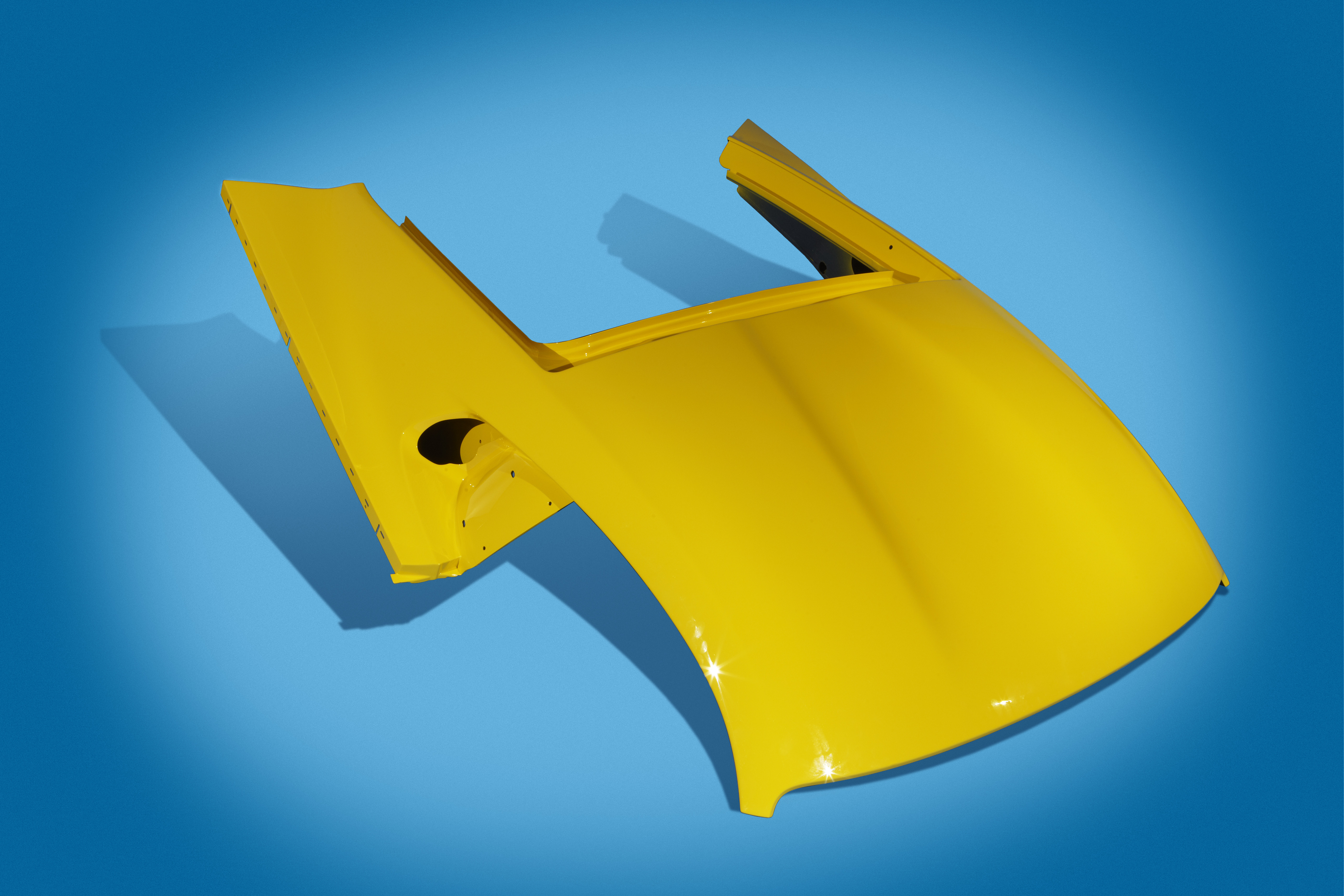 CARBON FIBER COMPOSITE ROOF ASSEMBLY •OEM Make & Model: 2013MY Fiat-Chrysler Group SRT Viper® GTS supercar •Tier Supplier/Processor: Plasan Carbon Composites •Material Supplier / Toolmaker: Umeco plc/Cytec Industries (carbon fiber weave prepreg); Toray Carbon Fibers Americas, Inc. (unidirectional carbon fiber prepreg); Dow Automotive (structural adhesive) / Windsor Mold Group •Material / Process: G83C T700S-24K carbon composite / Vacuum bag, autoclave cure •Description: This carbon fiber composite roof assembly is a Class A part that is a key structural component of the vehicle. Layup orientation and thickness were custom tuned to meet various structural requirements of both part and vehicle. Complex layup of plies was enabled by a CAD-drive laser placement system, which directs the operator in positioning plies during layup of the prepreg kit. Structural rigidity was increased vs. aluminum or SMC while weight was significantly reduced.